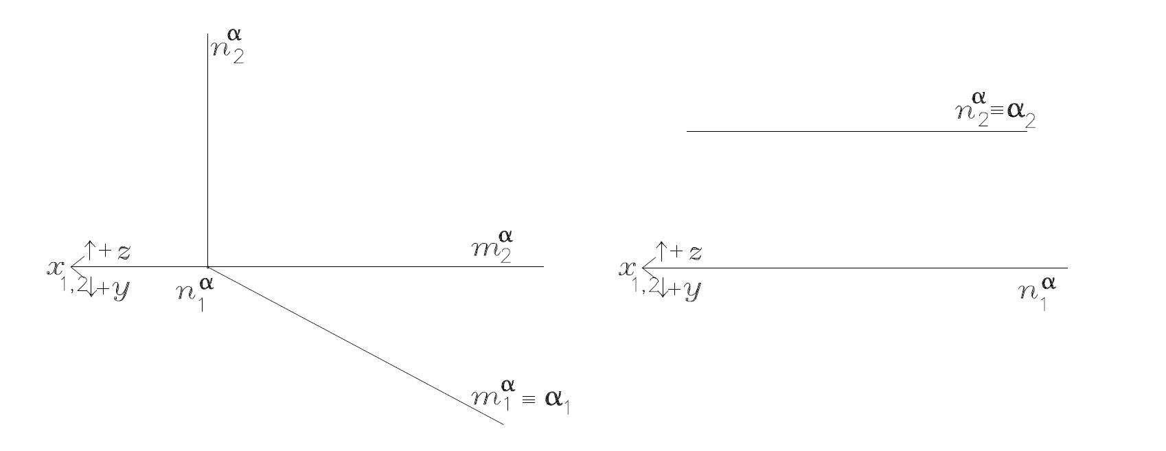 Изобразяване на равнина2